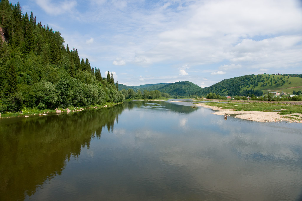 Inzer River near the village of Assy.